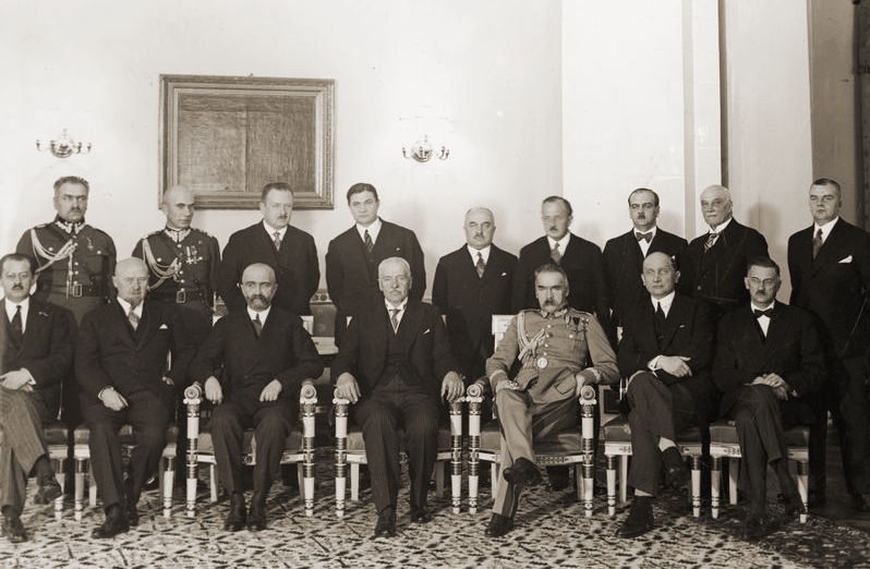 Polish Government under Prime Minister Walery Sławek (IInd government of Slawek) 1930